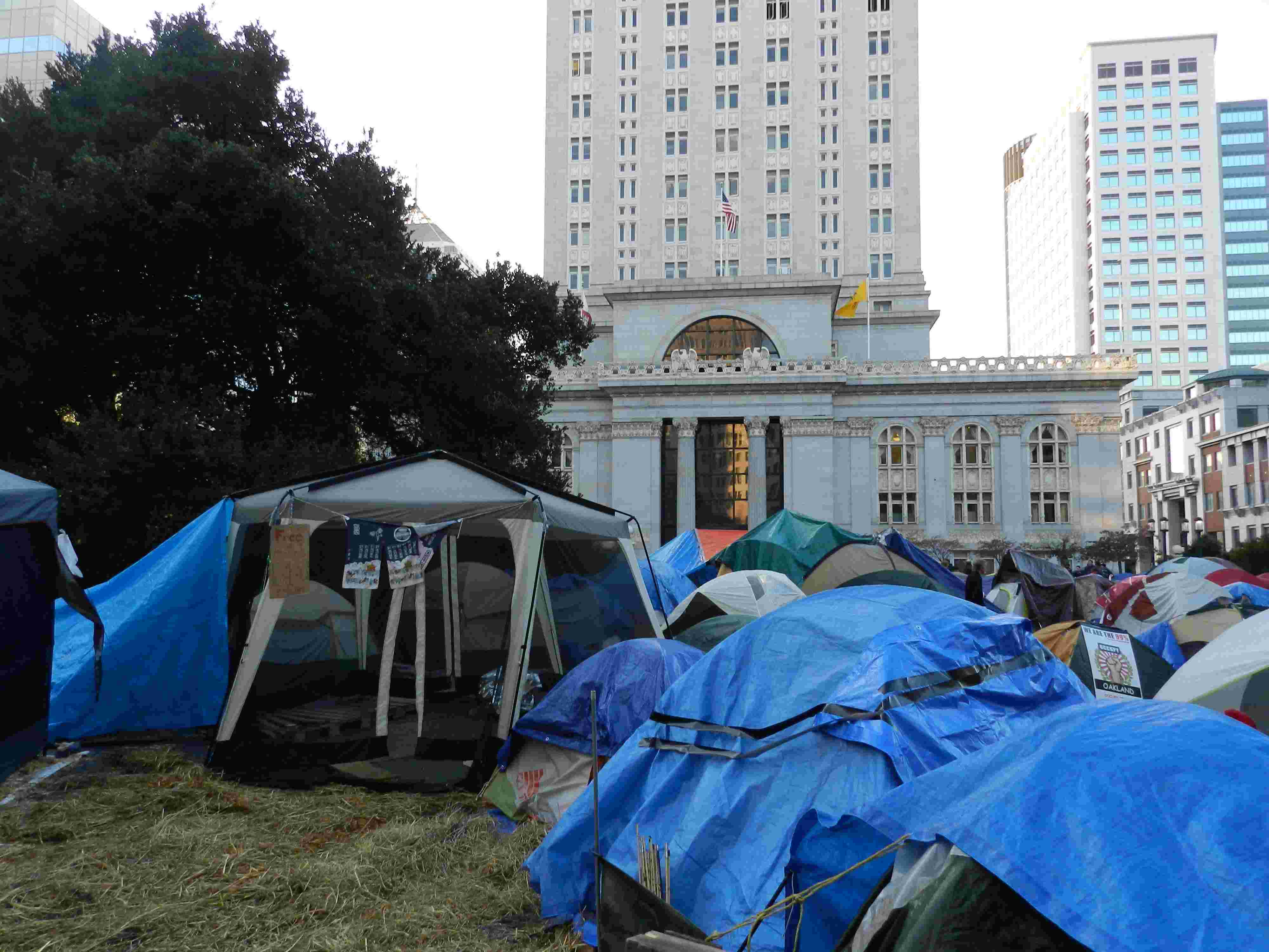 Occupy Oakland, November 12 2011, afternoon